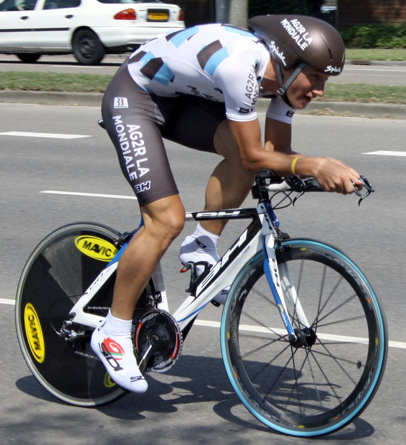 Gatis Smukulis at the 2009 Eneco Tour prologue